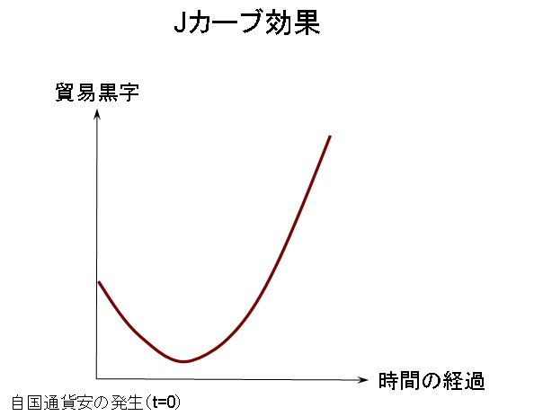 Graph showing J-curve effect